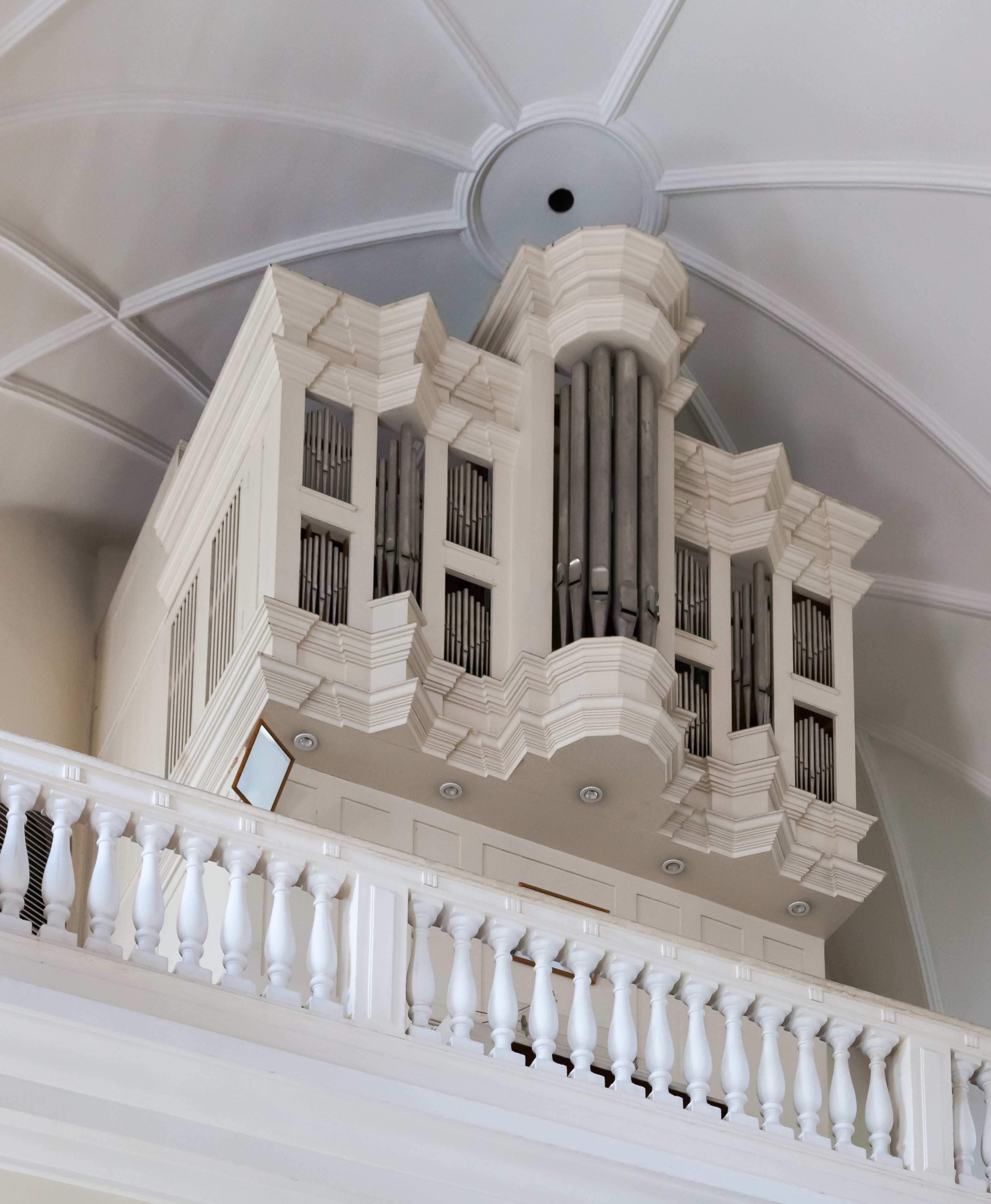 Siauliai Cathedral, Lithuania